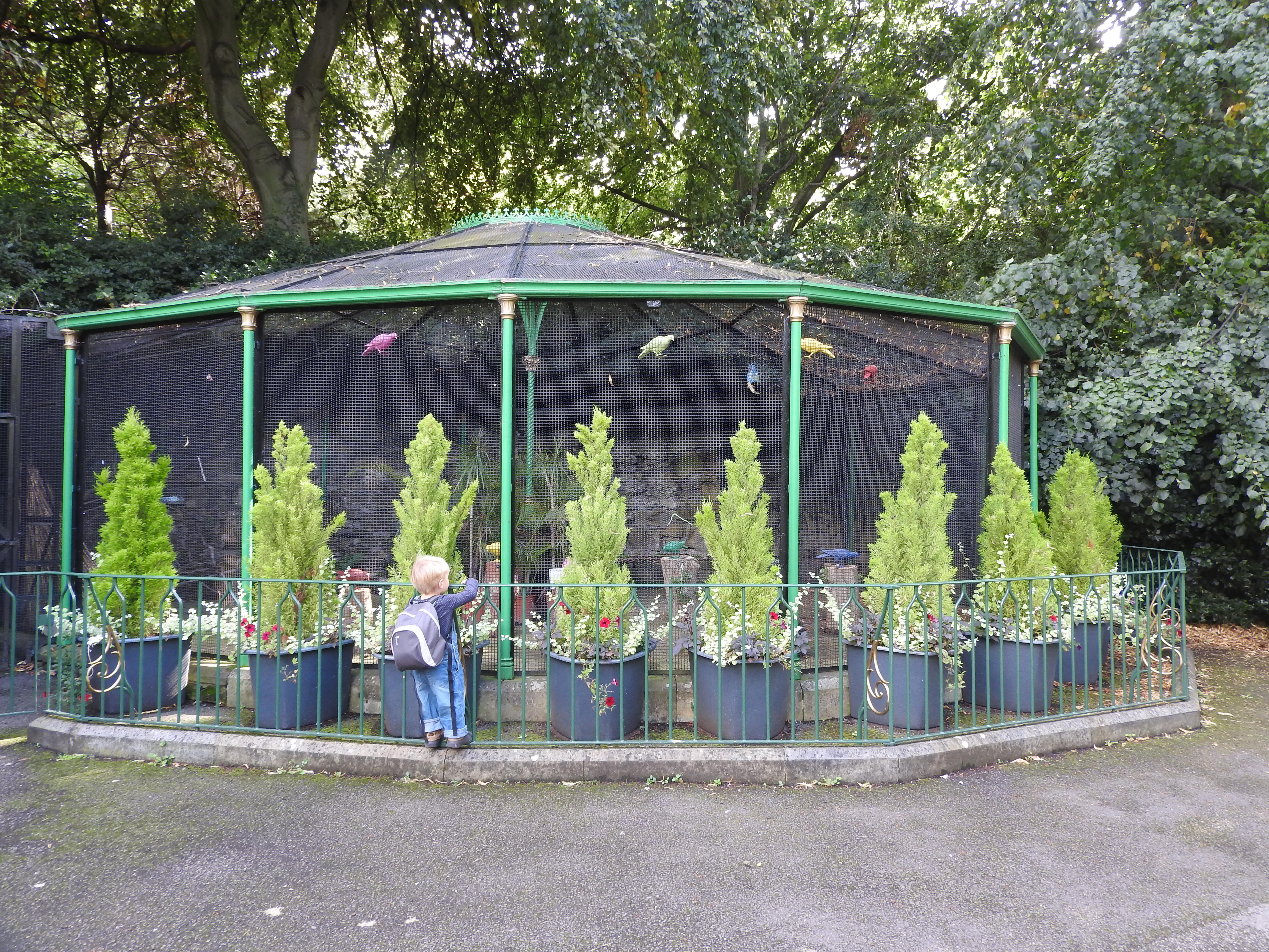 Nottingham Arboretum